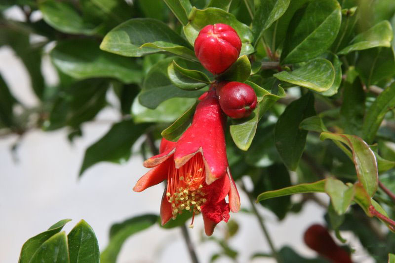 Pomegranate Blossom in Bardeskan.